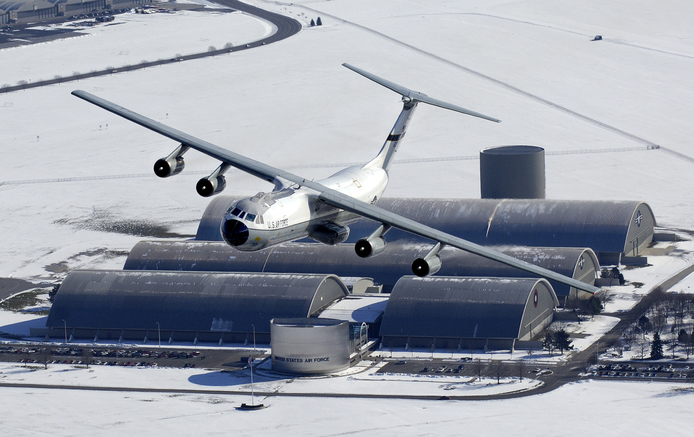 Hanoi Taxi checks out its new home A C-141 Starlifter aircraft, better known as the Hanoi Taxi, flies over its soon-to-be new home at the National Museum of the U.S. Air Force adjacent to Wright-Patterson AFB, Ohio, Dec. 13. This particular aircraft gained fame when it was used to return American prisoners of war back home at the end of the Viet Nam War. As the last operational C-141 in Air Force Reserve Command's 445 Airlift Wing, the historic aircraft is scheduled to retire and be dedicated at the museum May 5-6. The Reserve wing started replacing its C-141s with C-5 cargo aircraft in October and plan to have a total of 11 C-5s by April 2007.